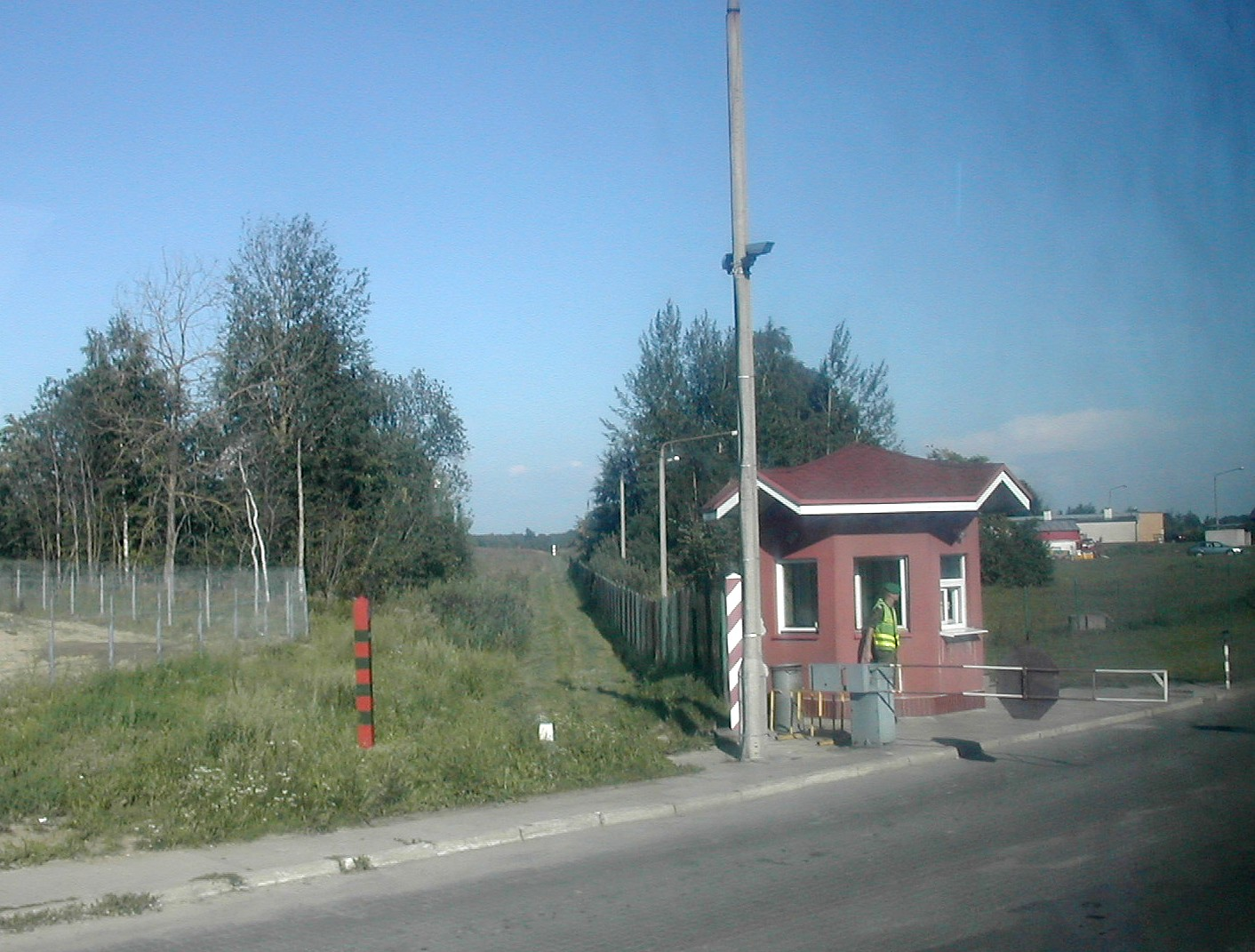 Polish-Russian border at crossing Bezledy-Bagrationovsk (Kaliningrad Oblast), Polish border guard officer on the right.